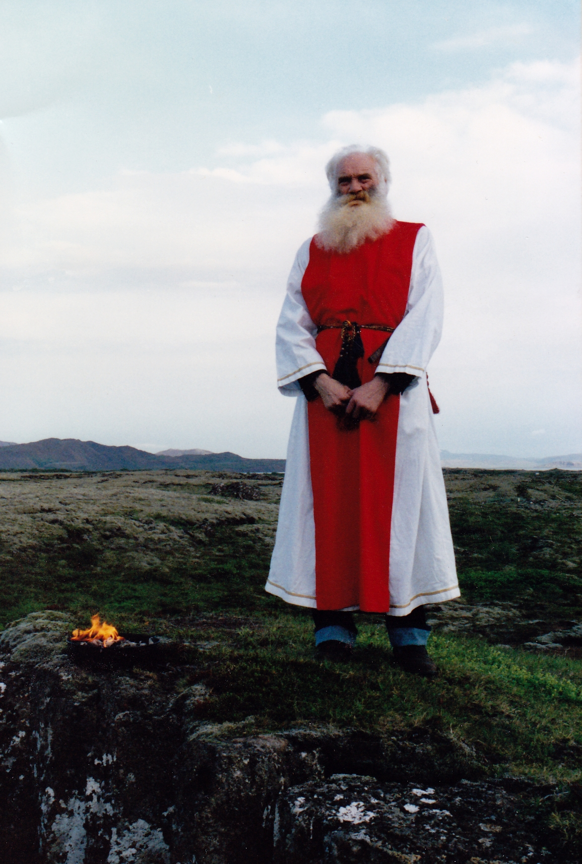 A photograph showing Sveinbjörn Beinteinsson in ceremonial garb at a ceremony at Þingvellir in 1991.